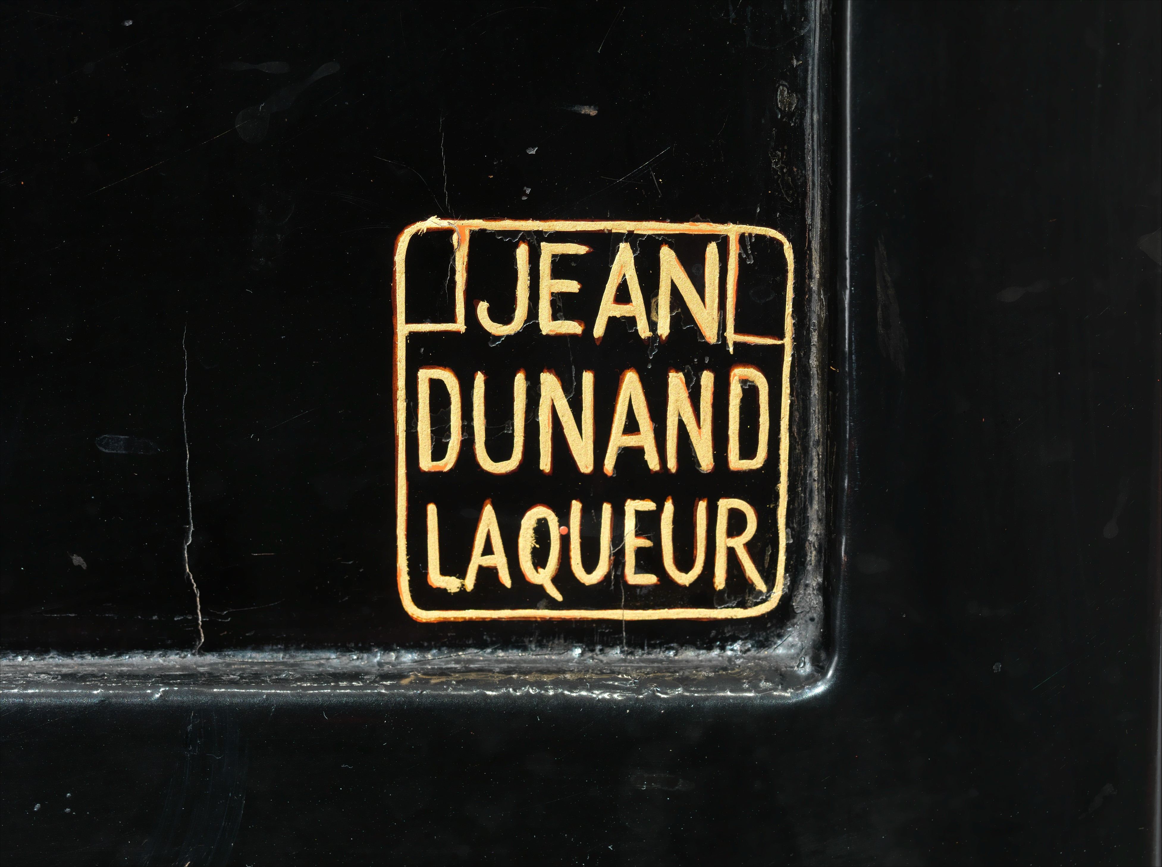 Screen; Furniture